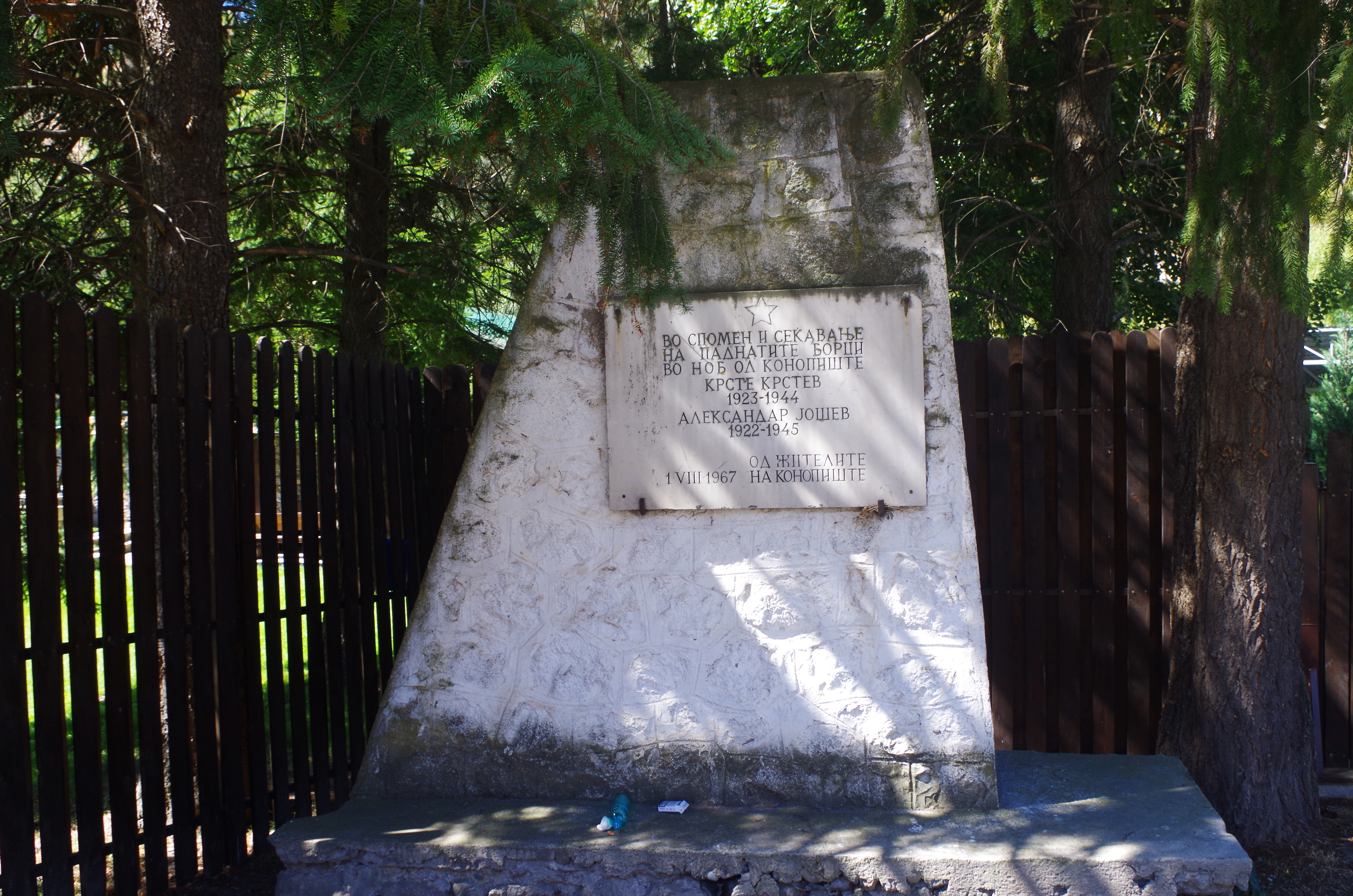 World War II in the village of Konopište